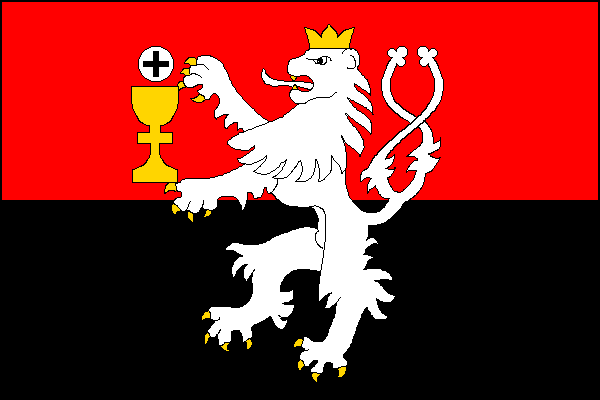 Municipal coat of arms of Tábor town, Czech Republic.